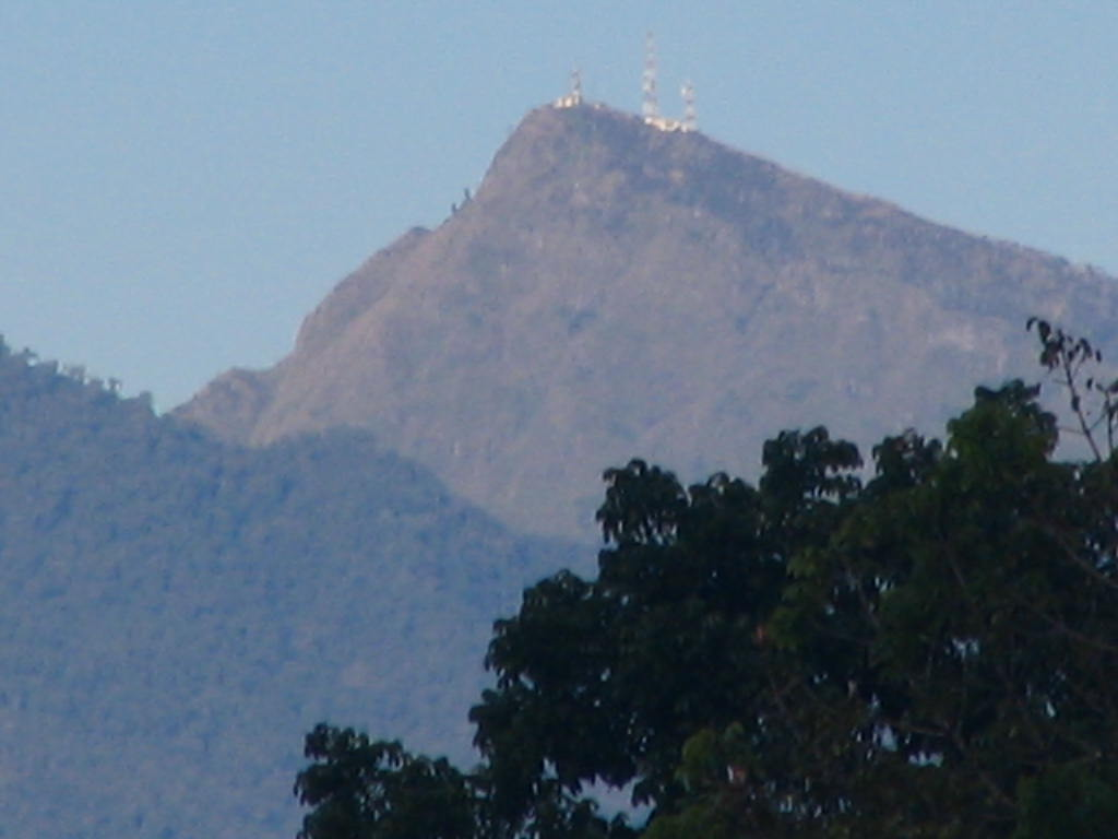 Mount Kitanglad as viewed from Impasug-ong, Bukidnon, Mindanao.